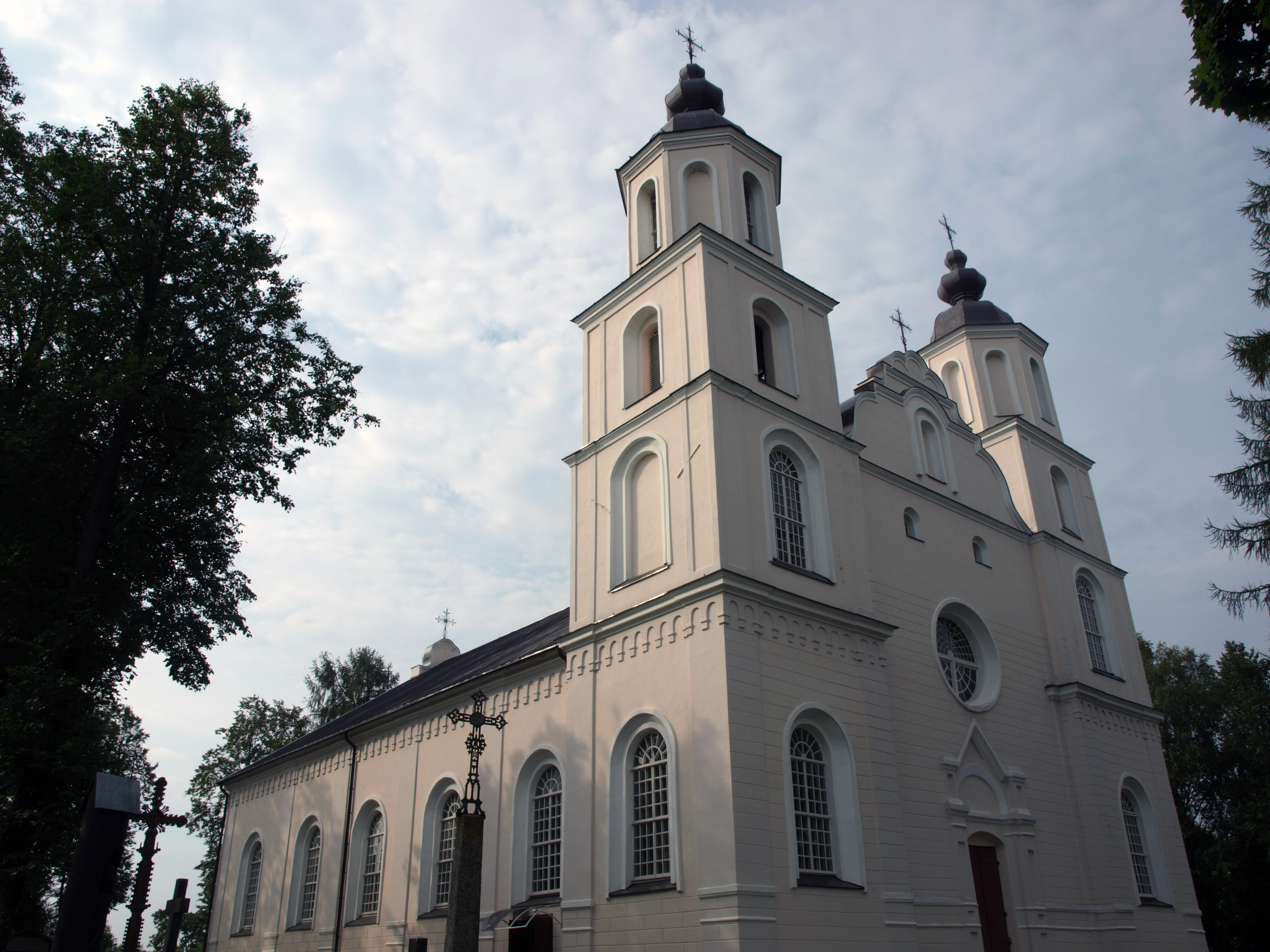 Zarasai church, Zarasai district, Lithuania